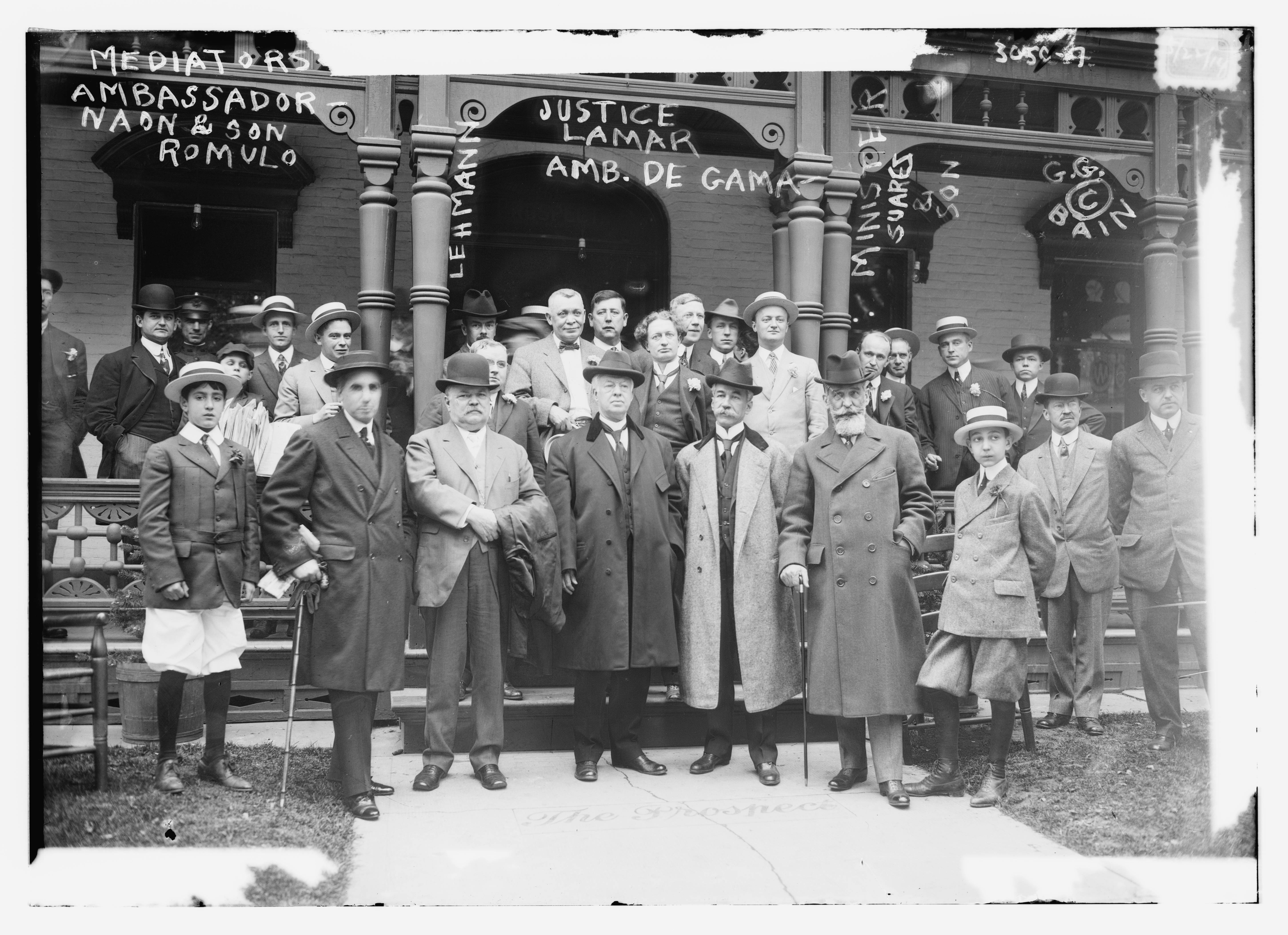 Mediators at Niagara Falls -- Ambassador Naon and his son Romulo Naon, Joseph Rucker Lamar, Domício da Gama, Frederick William Lehmann, Minister Suarez and his son in Niagara Falls in 1914 at the Niagara Falls peace conference Bain News Service,, publisher. Mediators at Niagara Falls -- Ambassador Naon & son Romulo, Justice Lamar, Amb. De Gama, Lehmann, Minister Suarez and son [between ca. 1910 and ca. 1915] 1 negative : glass ; 5 x 7 in. or smaller. Notes: Title from unverified data provided by the Bain News Service on the negatives or caption cards. Forms part of: George Grantham Bain Collection (Library of Congress). Subjects: Niagara Falls Format: Glass negatives. Repository: Library of Congress, Prints and Photographs Division, Washington, D.C. 20540 USA, General information about the Bain Collection is available at Persistent URL: Call Number: LC-B2- 3050-7